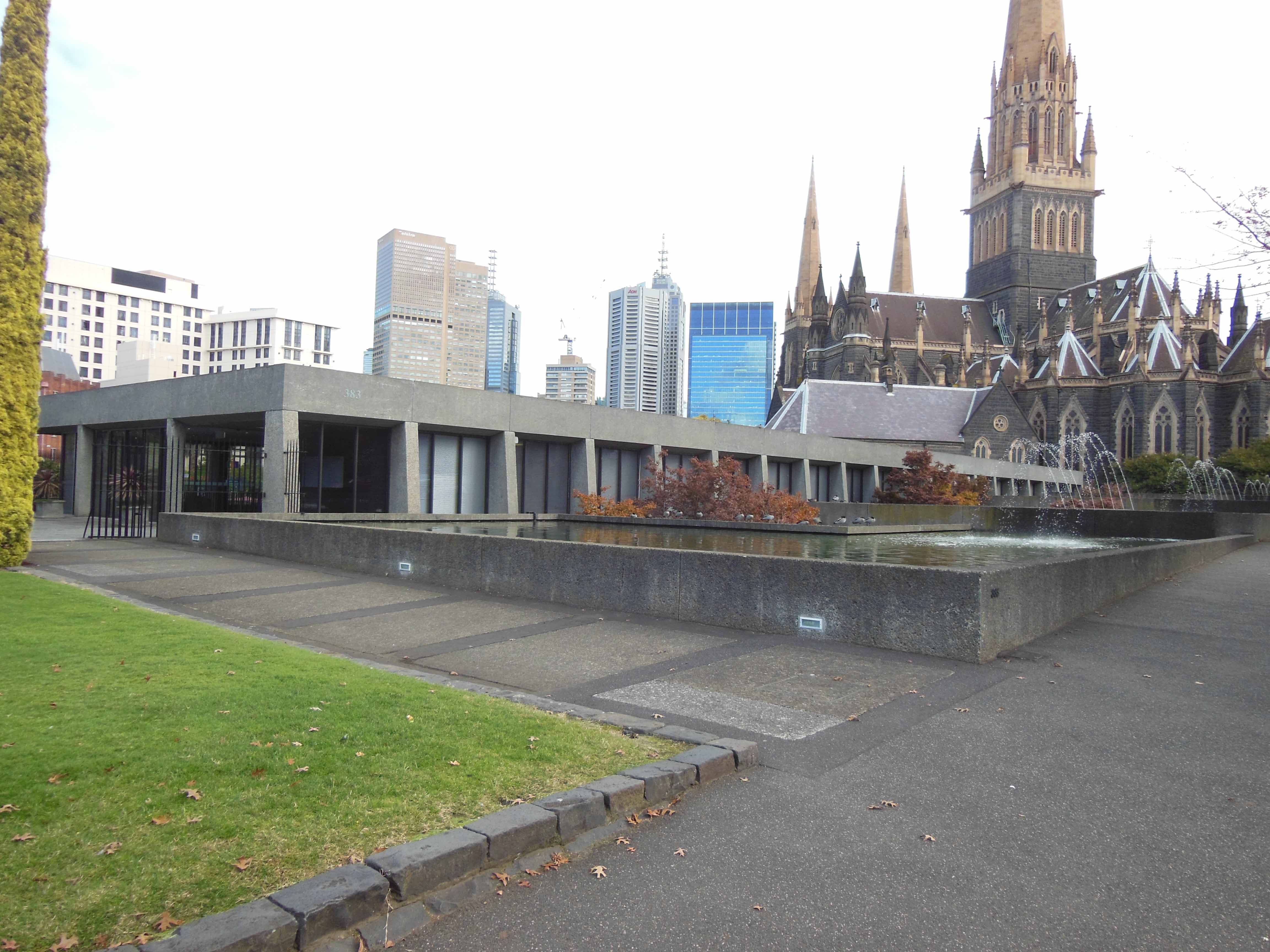 Cardinal Knox Centre Entry